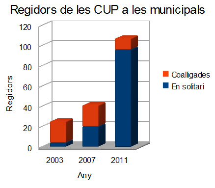 CUP's regidors of the municipals eleccions from 2003 to 2011